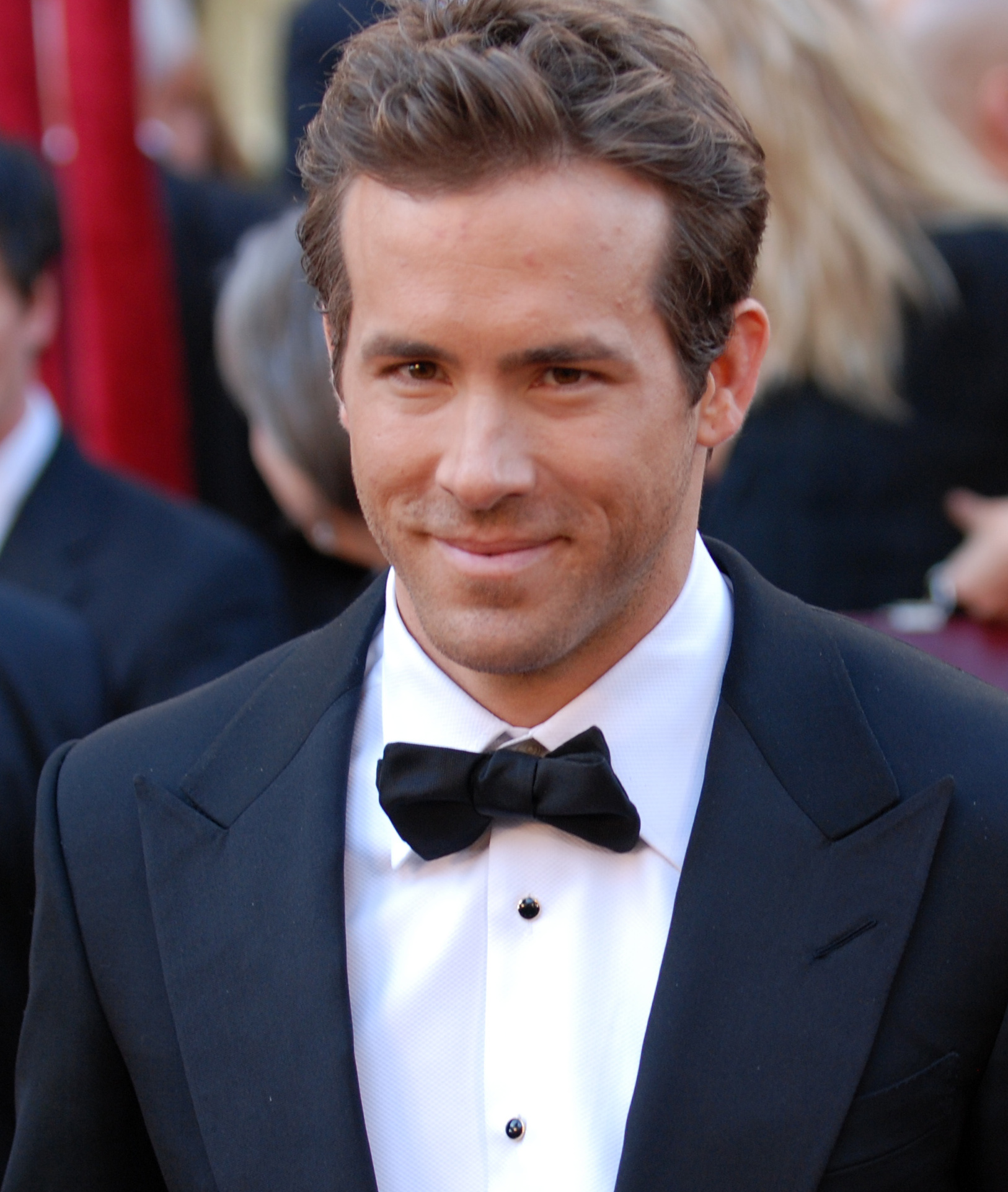 Ryan Reynolds arrives at the 82nd Academy Awards.